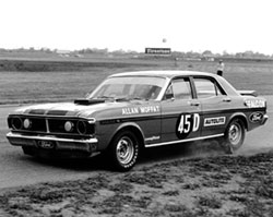 Allan Moffat in the Ford Falcon GTHO Phase III at Surfers Paradise International Raceway, Round 1 of the South Pacific Touring Car Series, 6th February 1972. Photo by Graham Ruckert.